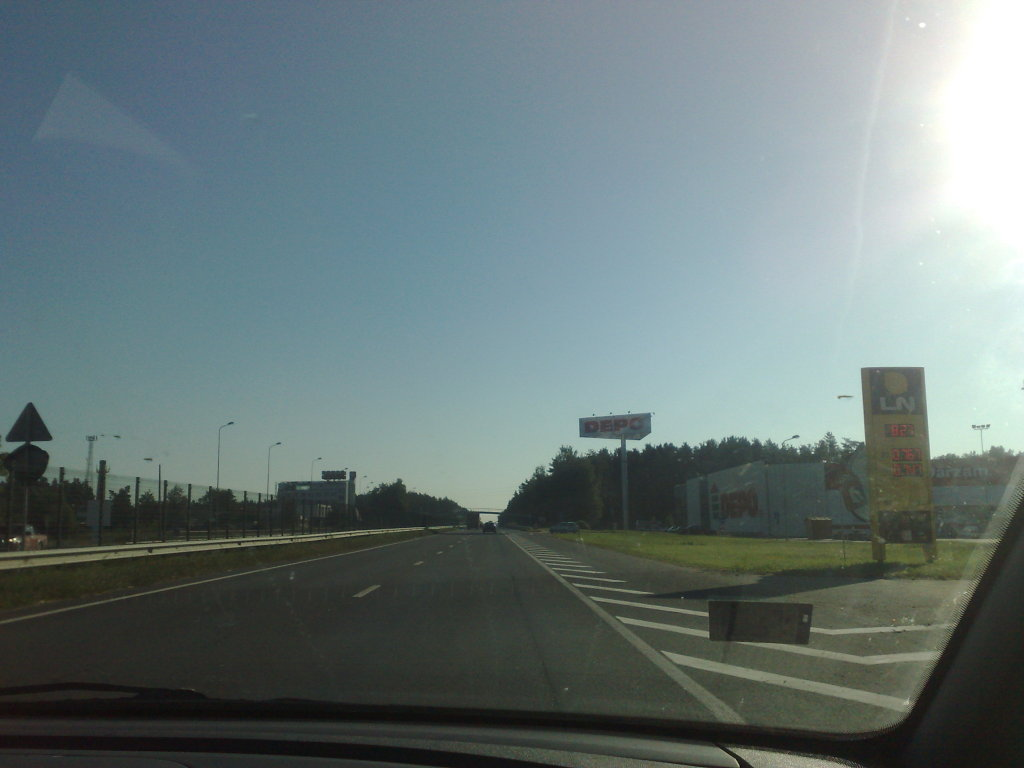 Latvian state highway A2 in Riga